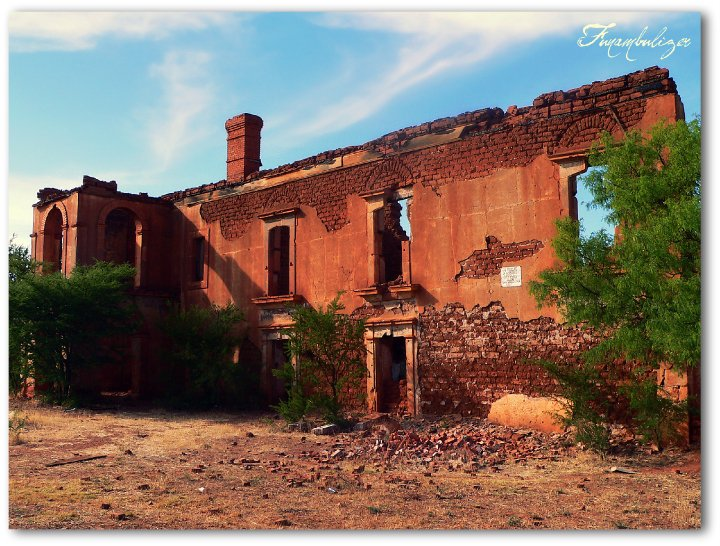 Hacienda de Santiago built in the spanish viceroyalty.